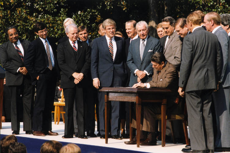 Ronald Reagan signing the Tax Reform Act of 1986